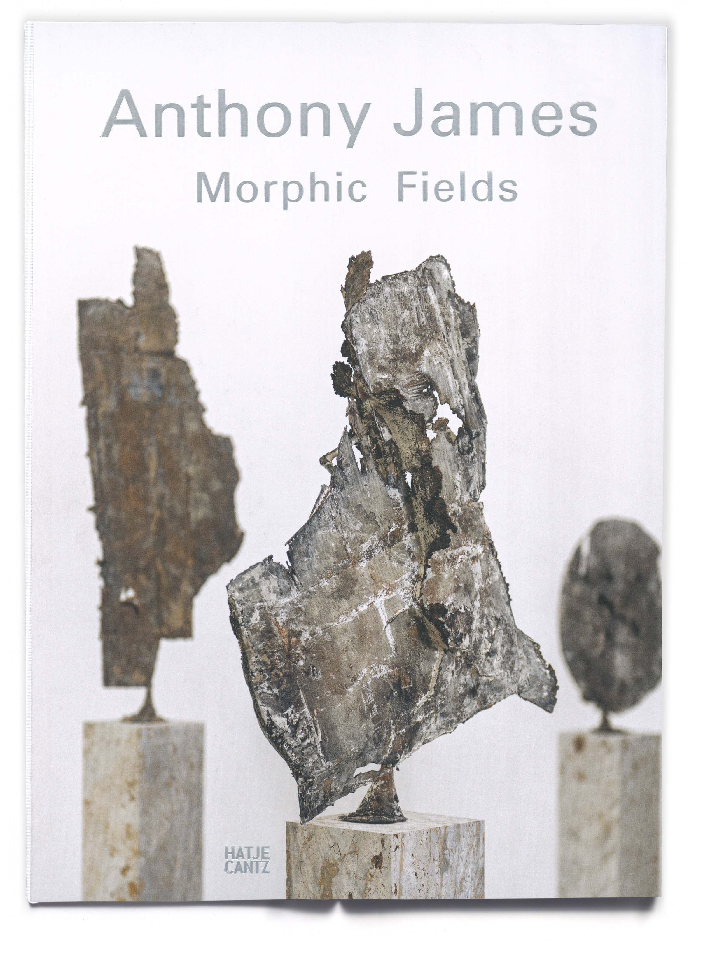 Morphic Fields Book AnthonyJames